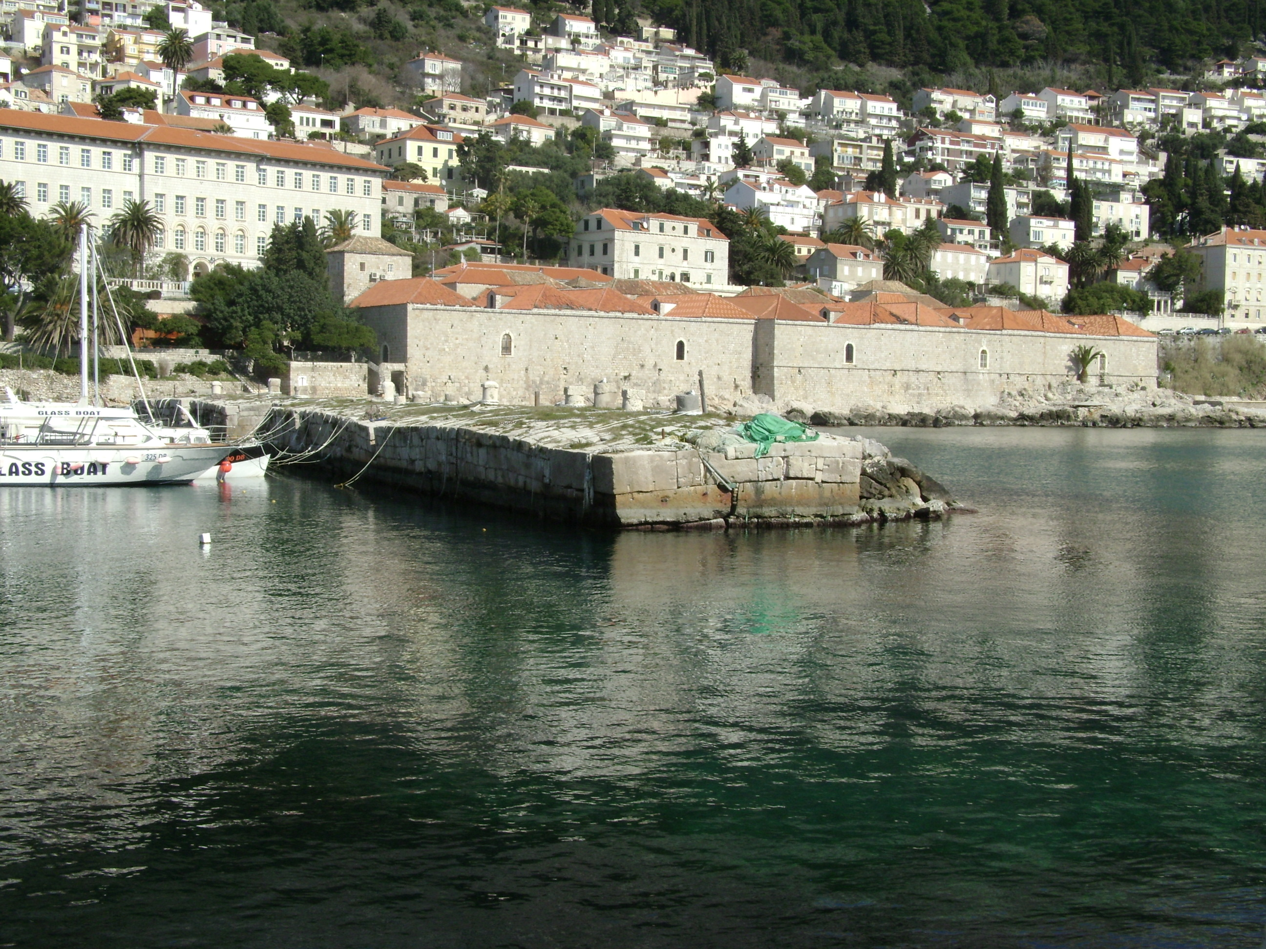 Dubrovnik, old town, monuments. Kaše and Lazareti